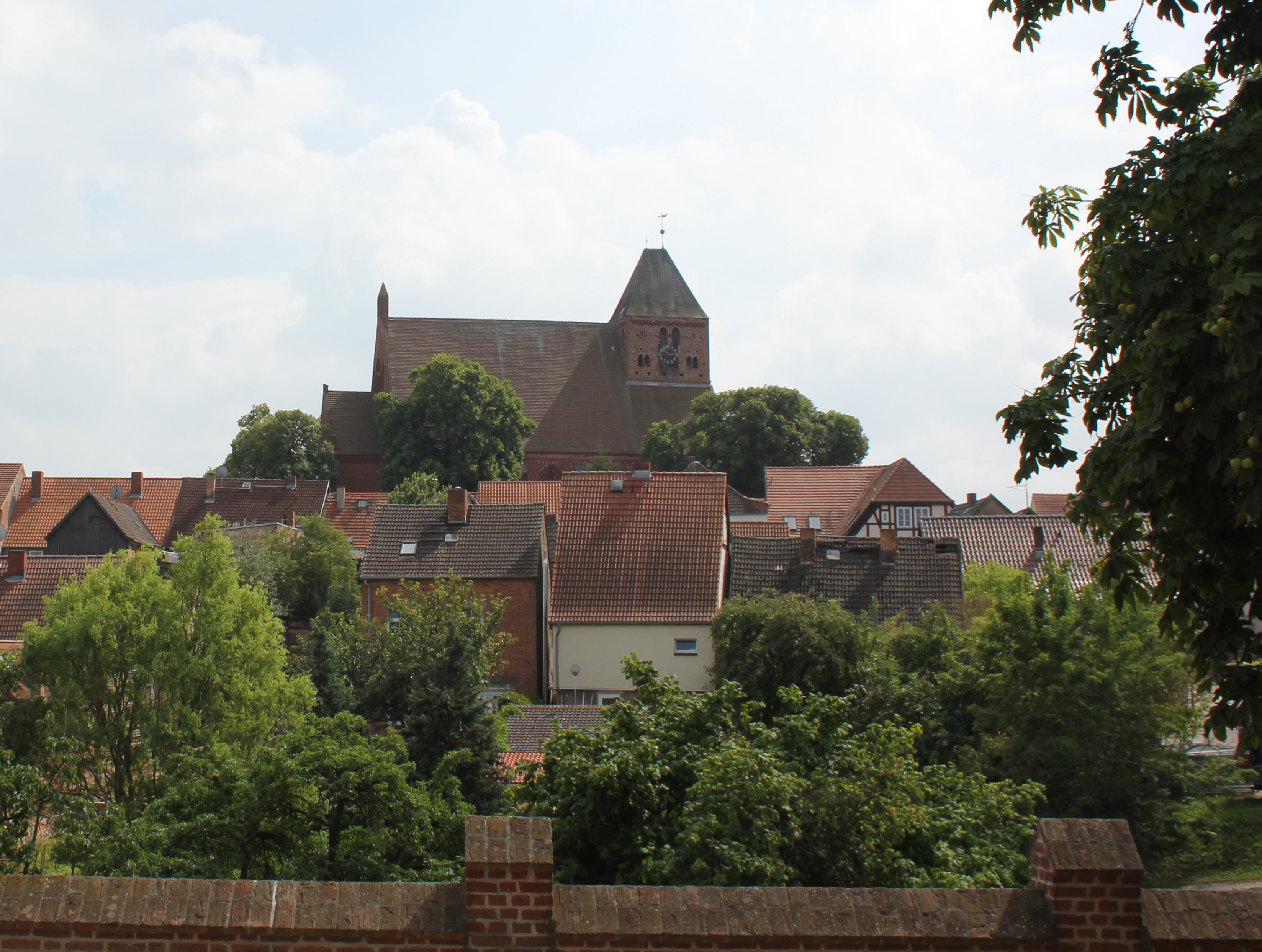 The The church of Penzlin